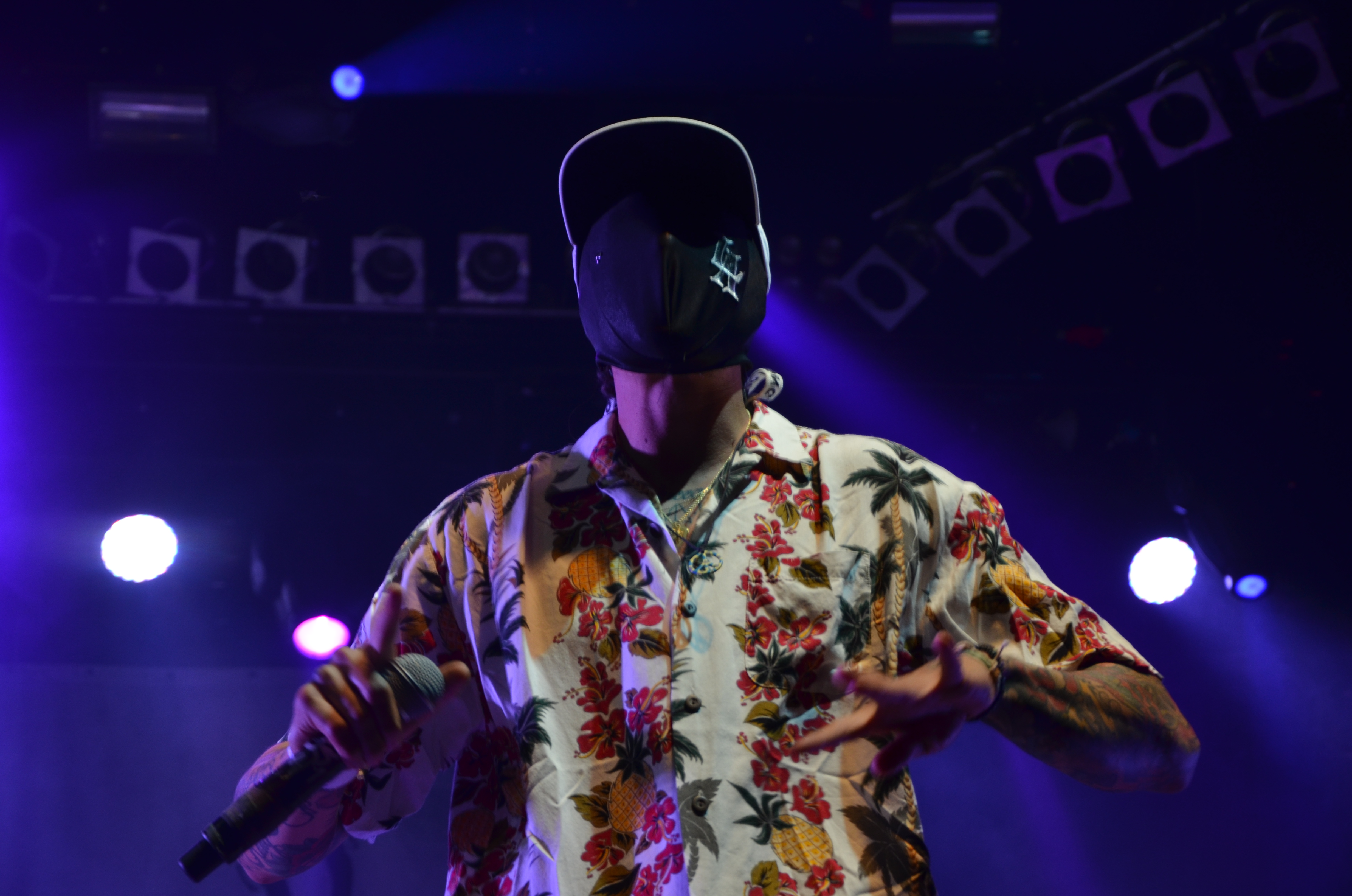 Hollywood Undead bei Rock am Ring 2015.